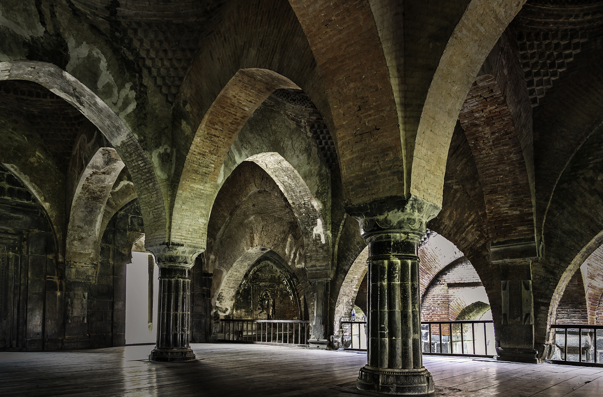 The Adina Mosque ruins are the ruins of the largest mosque in the Indian subcontinent, located in the Indian state of West Bengal, near the border with Bangladesh.